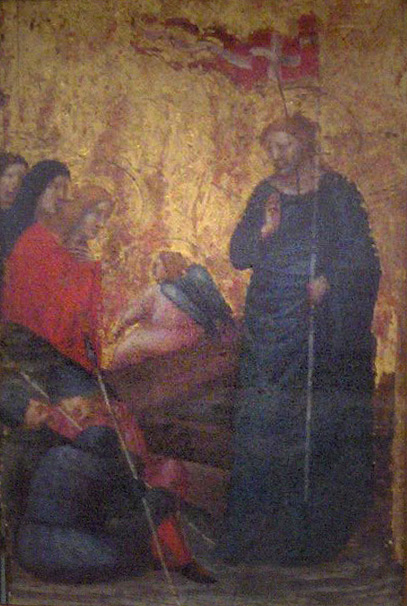 The Resurrection